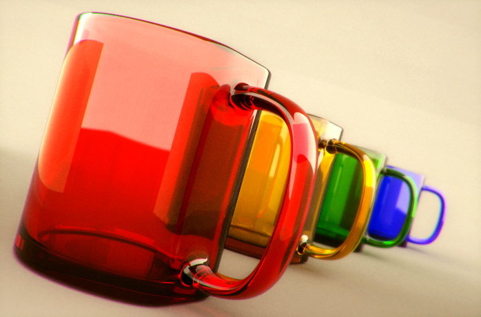 Colorful glass cups rendered in Indigo, Images by Godzilla.